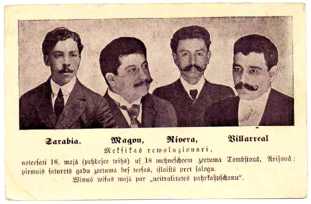 Postcard in Latvian of Mexican revolutionaries Juan Sarabia, Ricardo Flores Magón, Librado Rivera y Antonio I. Villareal. Translation: Mexican Revolutionaries Sentenced on 16 May (the last three) to 18 months in prison, Tombstone, Arizona; the first was kept in prison for a year without trial, released by agreement. They were all prosecuted for "neutrality border violations". Note: The correct date of sentence is September 26th, 1907.